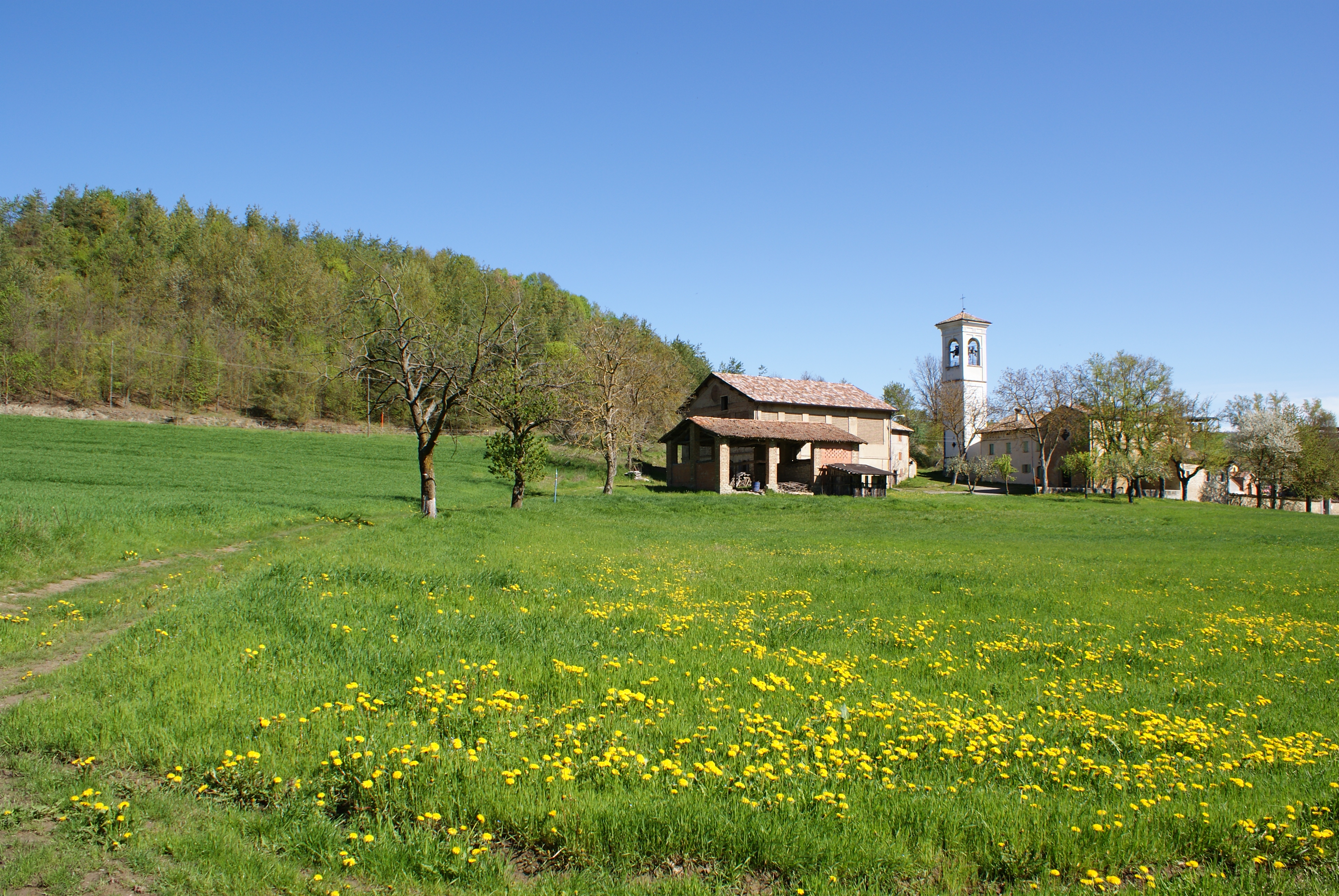 San Donnino (Carpineti), Carpineti, Province of Reggio Emilia